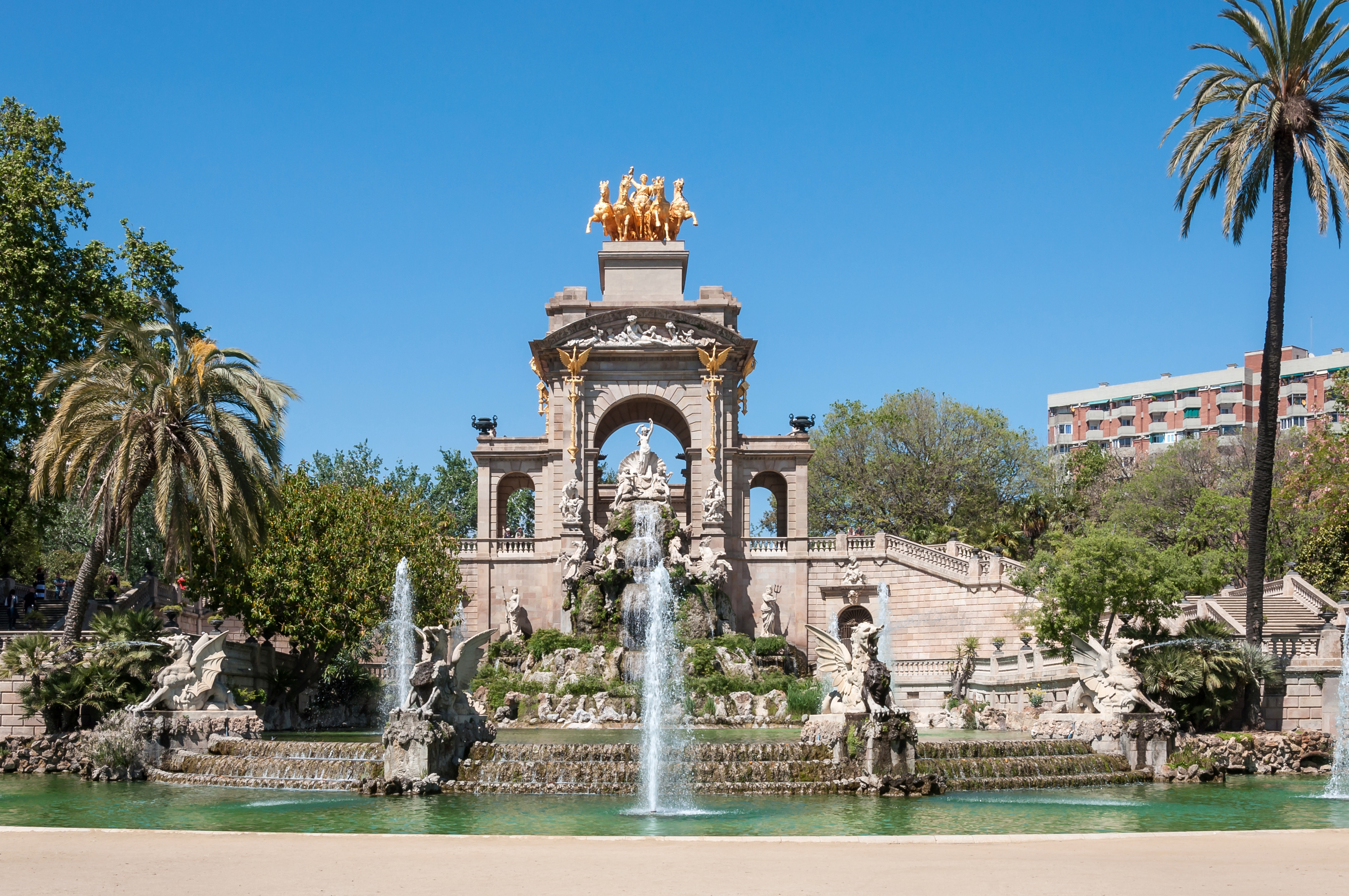 The Parc de la Ciutadella is a large park in Barcelona and was established in the mid of the 19th century. The remarkable fountain "Font de la Cascada" was designed by Josep Fontserè i Mestre.